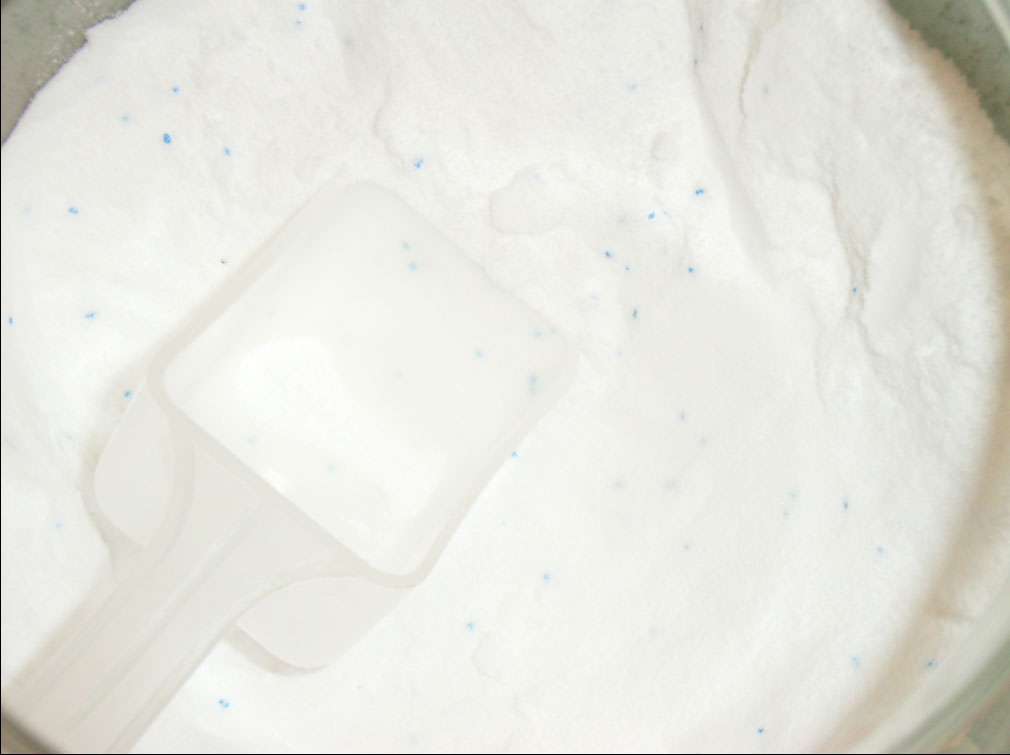 白色的洗衣粉和量匙